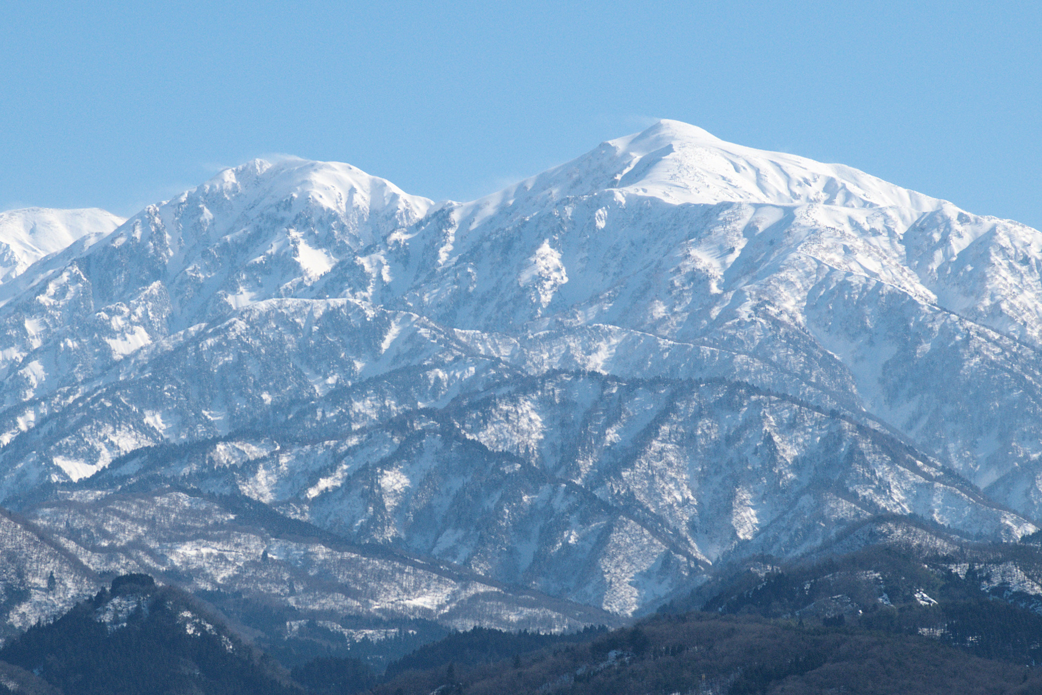 Dainichi Mountains seen from the WNW.